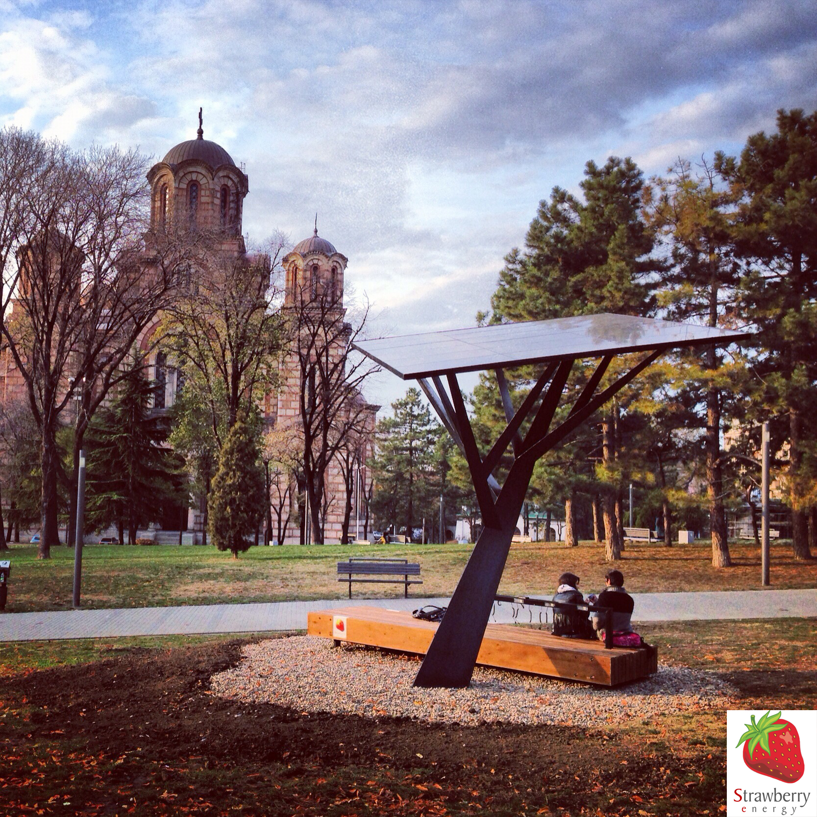 Serbian Strawberry energy Company presented new public solar charger for mobile devices Strawberry Tree Black, designed by architect Miloš Milivojević